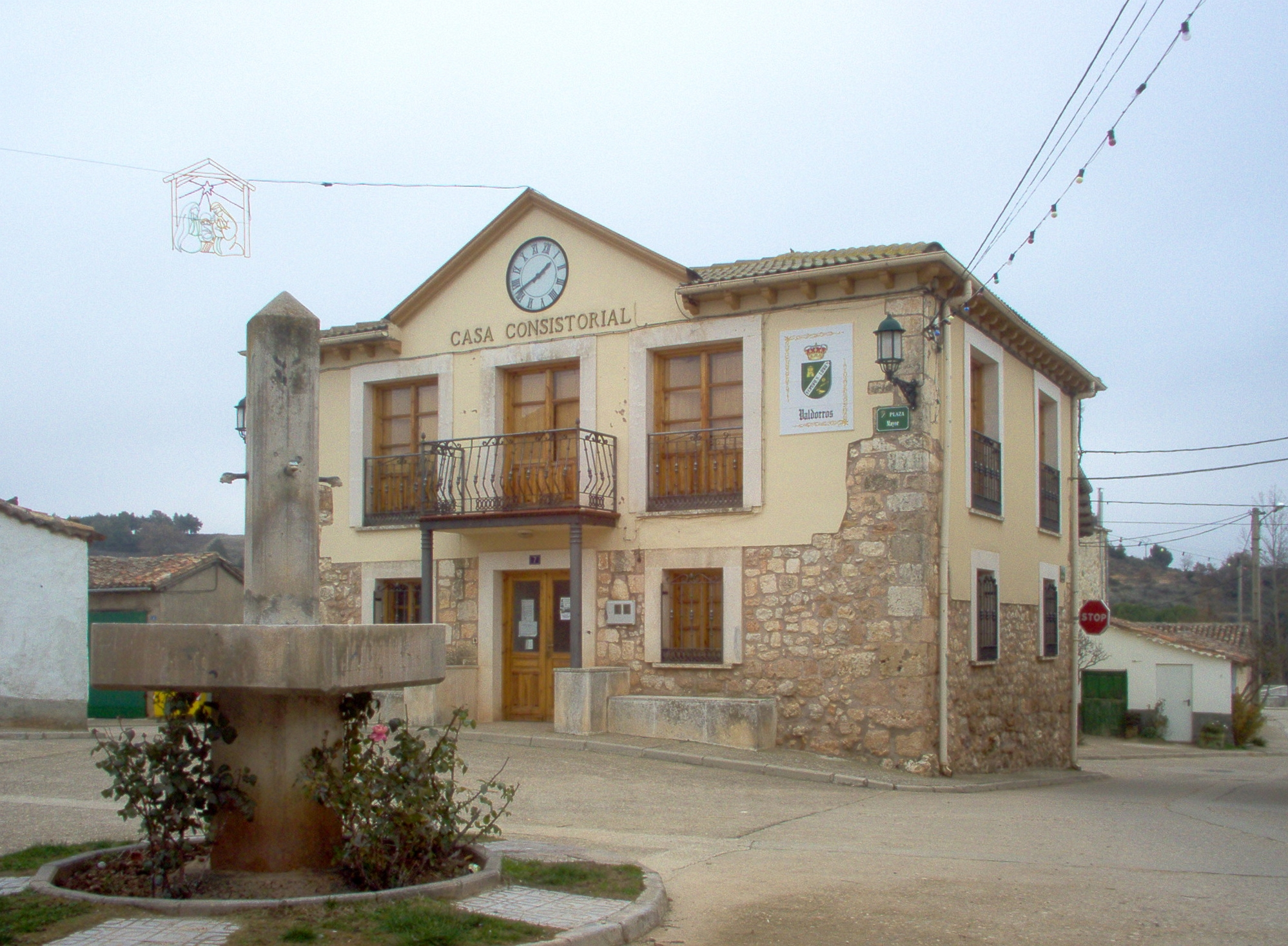 Own photo